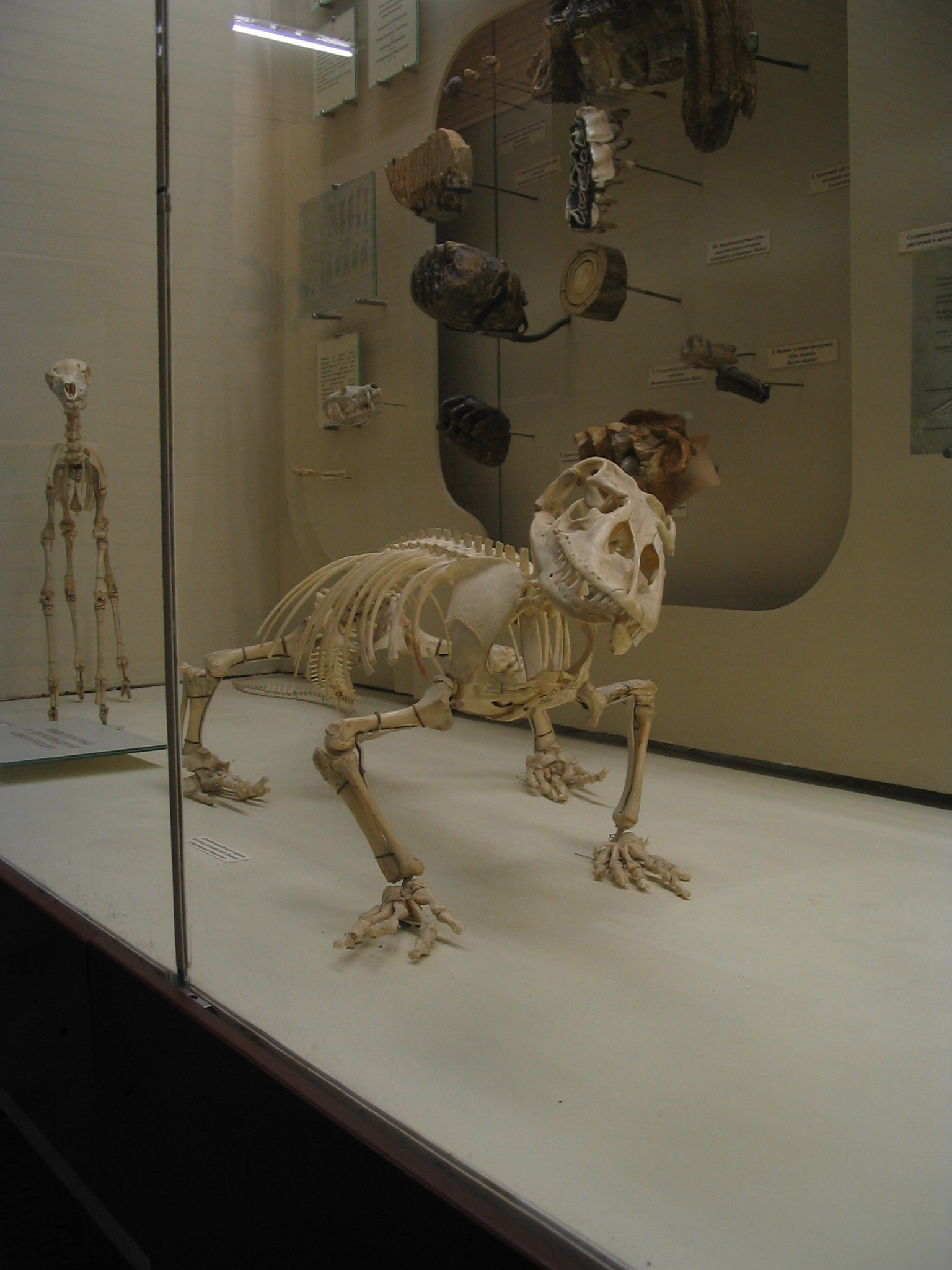 Skeleton of a Komodo Dragon, from the Moscow Museum of Palaeontology